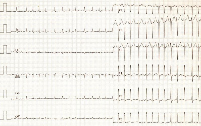 ECG with atrial fibrillation